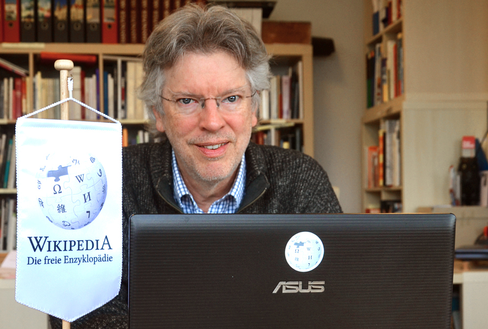 The 1951 born US-american composer, writer and filmmaker George A. Speckert in Hannover in the office of the Wikipedia-Büro Hannover ...